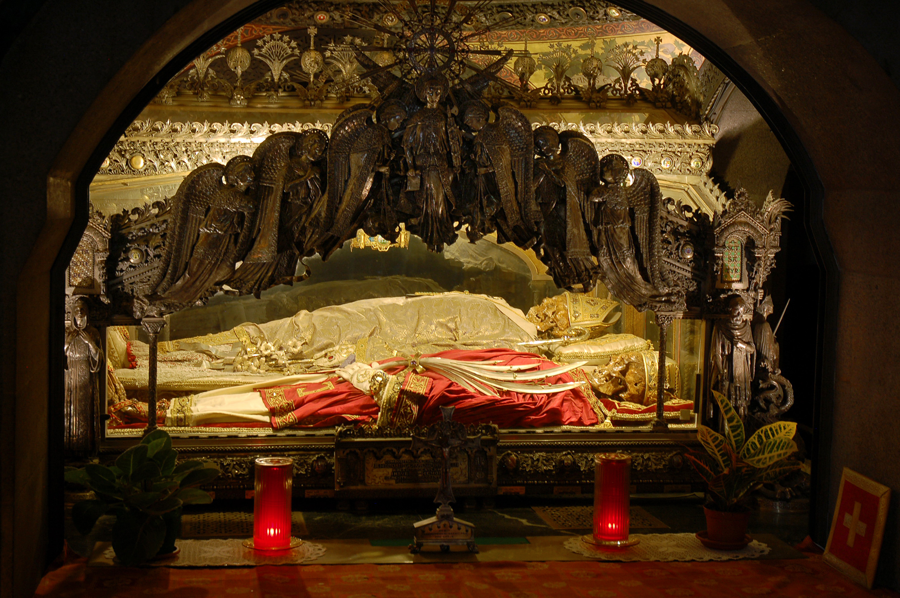 Crypt of bishop Ambrose and two marthyrs, Saints Gervase and Protase. Basilica of Sant'Ambrogio, Milan. (bodies aren't totally sharp because they are behind a bad quality sheet glass)